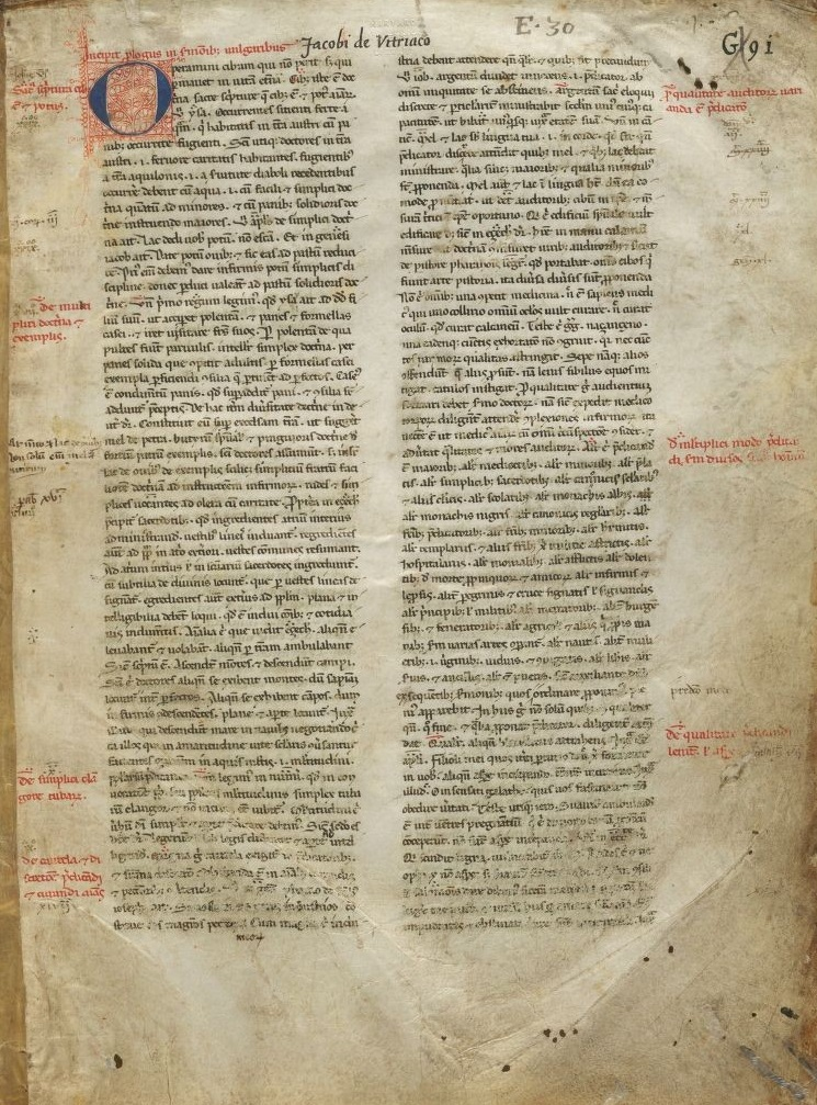 First page of Sermones vulgares, manuscript dating to 12—, by Jacques de Vitry (approx. 1170-1240). See also image of front cover. MS Riant 35, Houghton Library, Harvard University